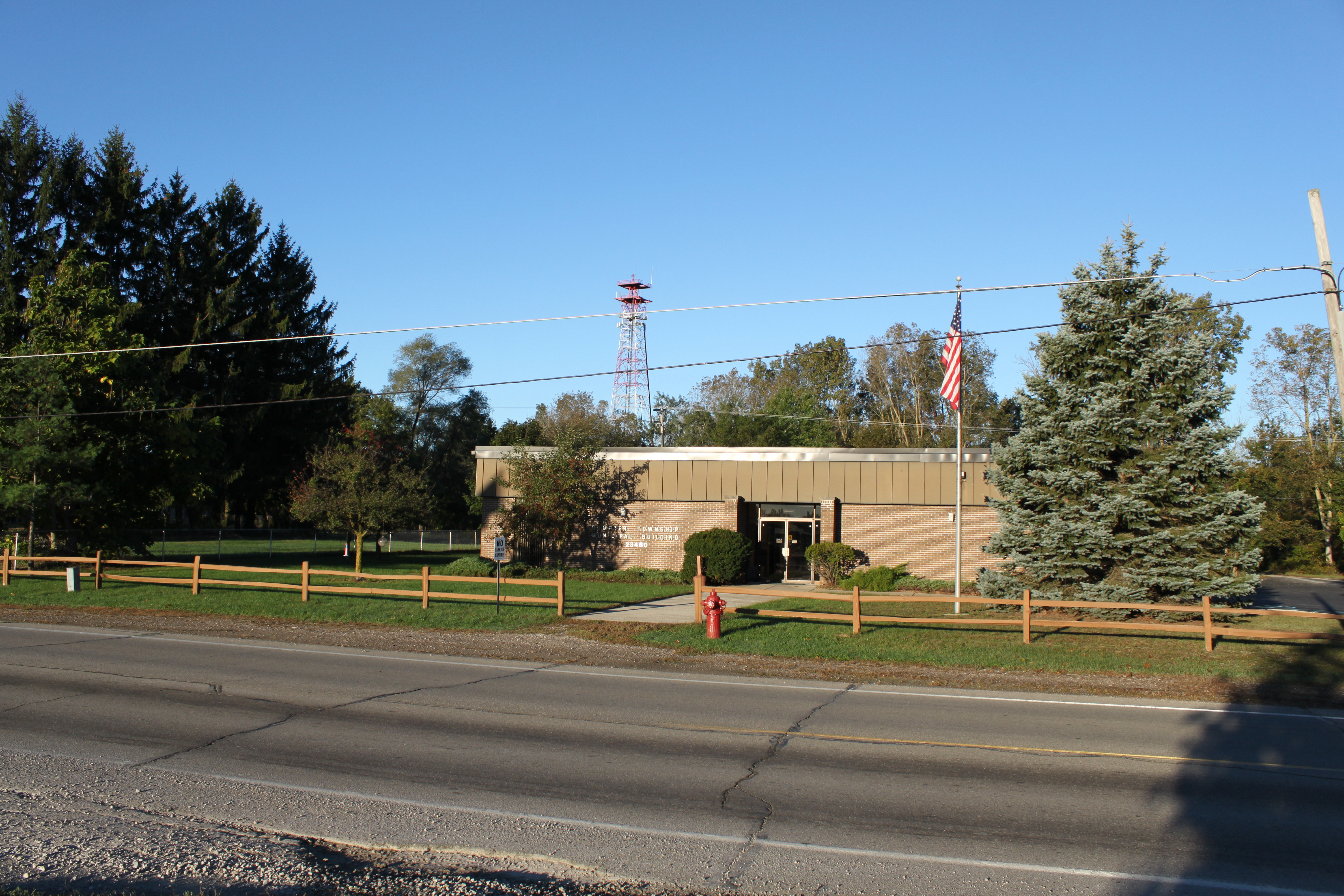 Sumpter Township Michigan Municipal Building, 23480 Sumpter Road.